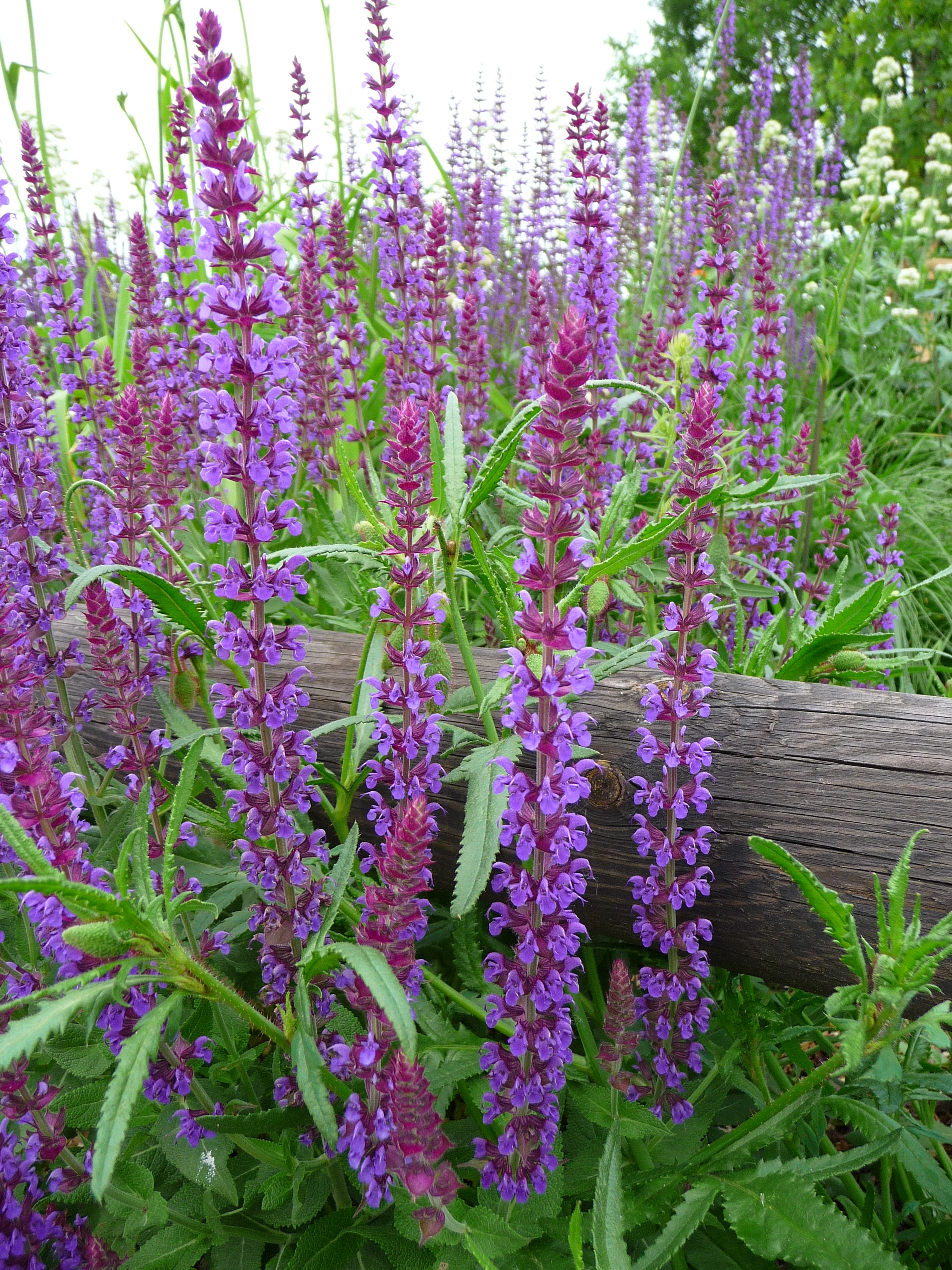 Woodland sage (Salvia nemorosa)